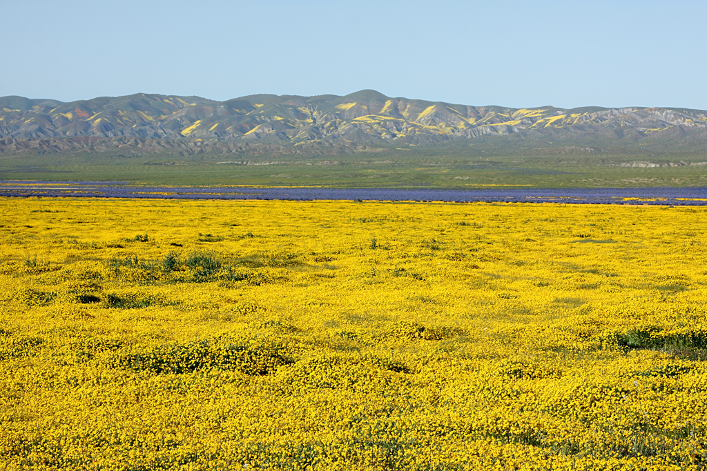 On the Carizzo Plain, in Carrizo Plain National Monument, eastern San Luis Obispo County, California. The field of bright yellow flowers in the foreground are hill-side daisies (Monolopia lanceolata). The blue flowers in the distance are blue phacelia (Phacelia species). Shot using a circular polarizer filter to reduce reflective light and a graduated neutral density filter to reduce the light contrast between the bright yellow flowers and the background. California, USA.